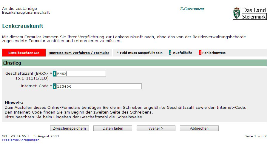 Web form of the Styria province (Austria) e-government platform